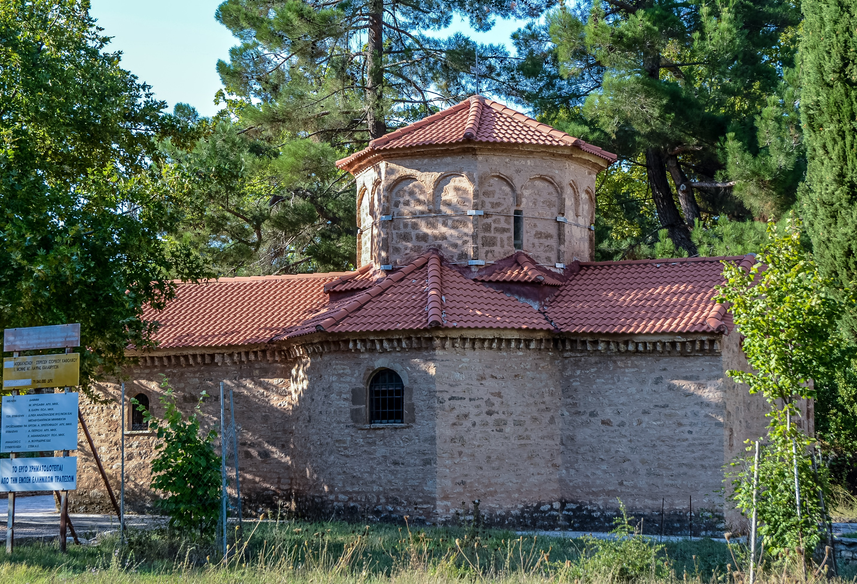 Agia Lavra monastery (September 2016).«Μονή Αγίας Λαύρας»